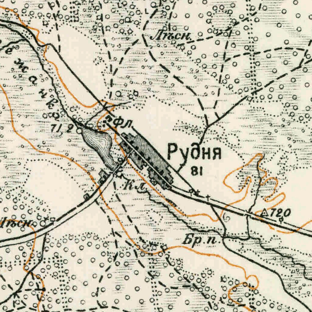 Pidlisne (Rudnia) on the map "Новая Топографическая Карта Западной России", XXVI 21, 1915.